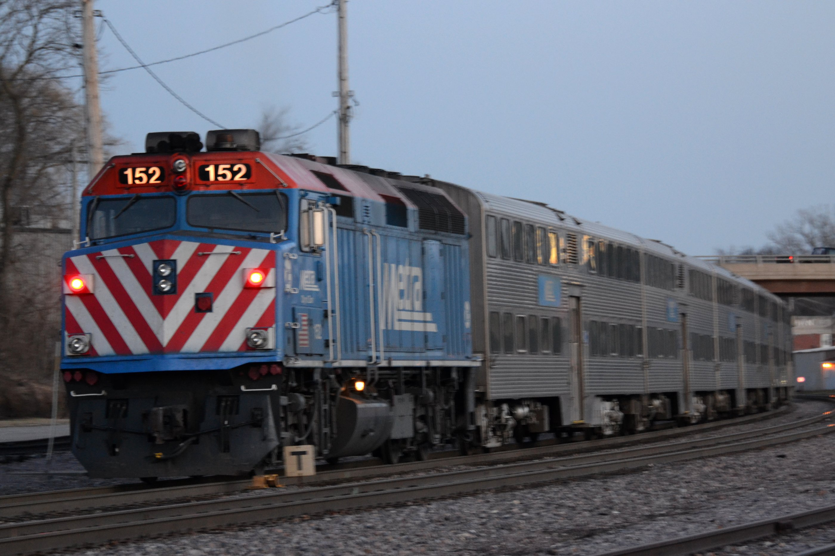 Leaving Harvard, Illinois heading to Chicago. It is running backwards, the caboose is in the direction it is heading (not really a caboose, just a modified carrier car-I got a photo of iti will post later).